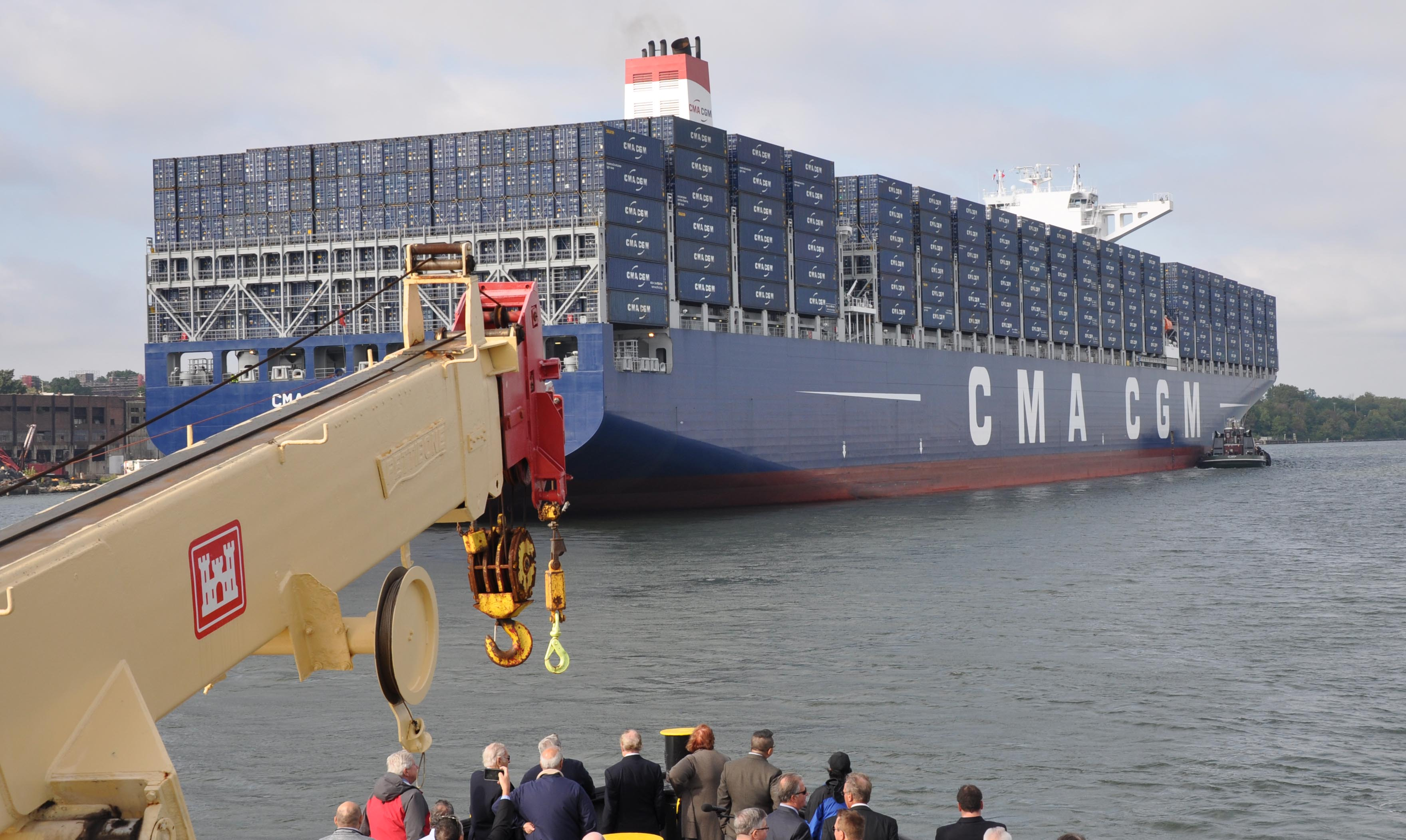 On Sept 7, 2017 the U.S Army Corp of Engineers New York District participated in a ceremony to commemorate the transit of the Container Ship CMA CGM Theodore Roosevelt under the Bayonne Bridge, whose clearance was raised by constructing a new roadway. The Roosevelt is the largest-capacity container ship to enter the Port of New York and New Jersey